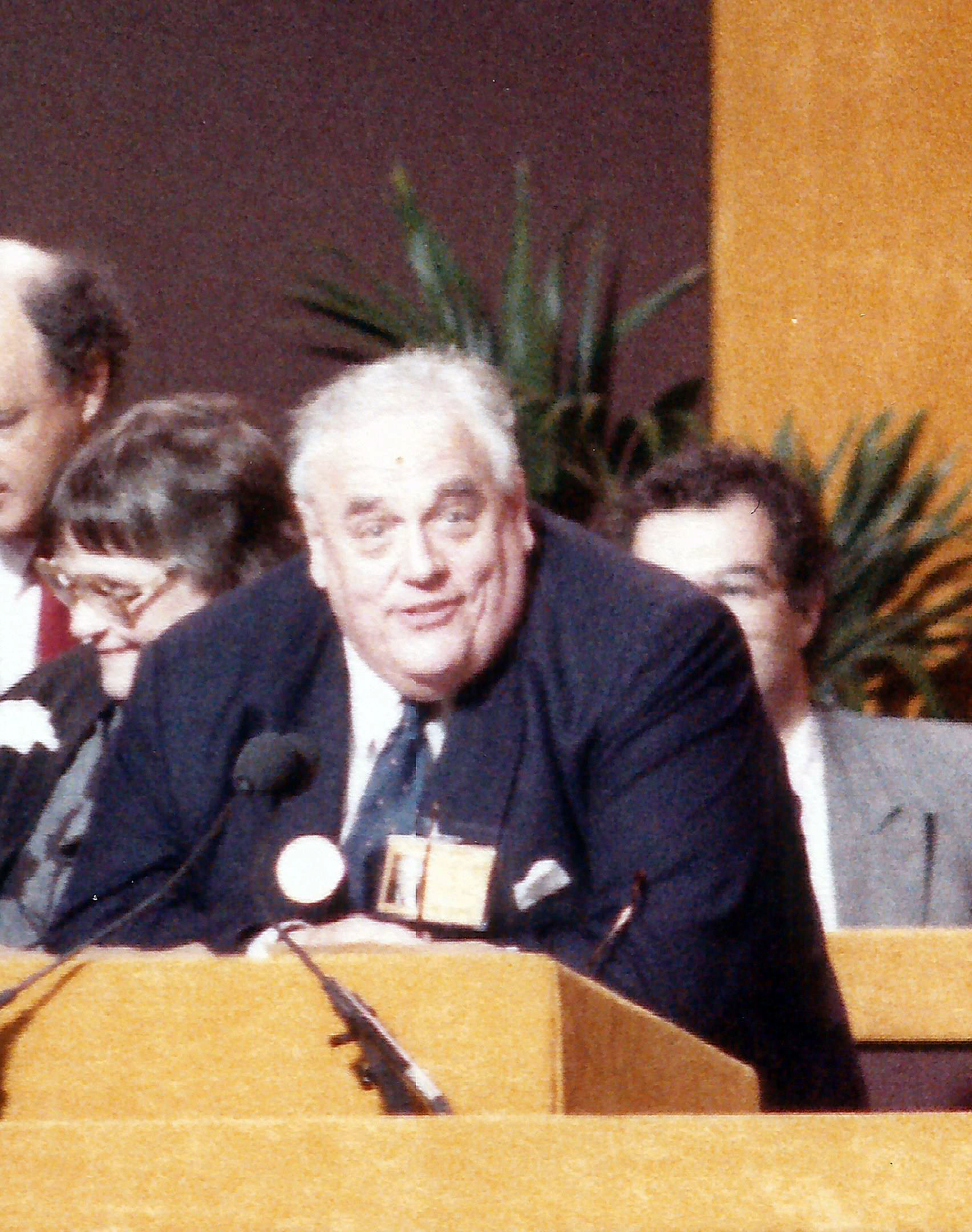 Cyril Smith addressing the UK Liberal Party Assembly in 1987